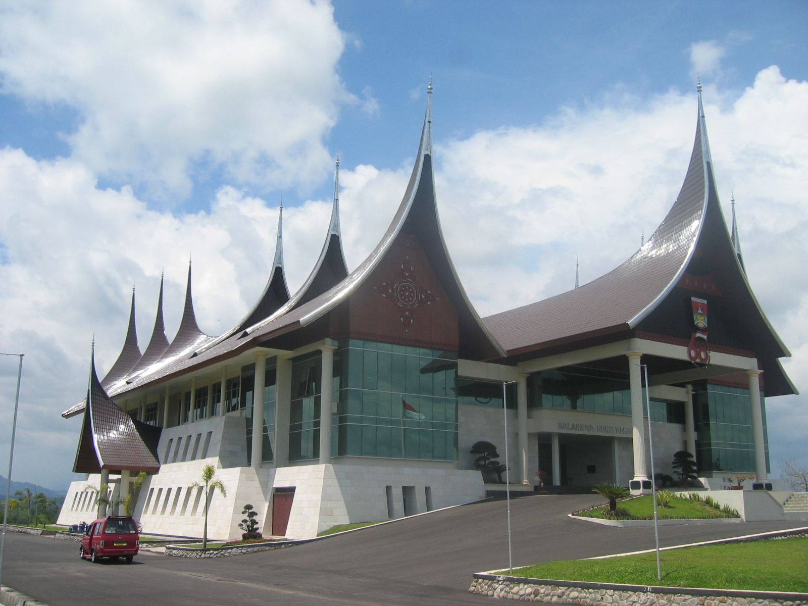 Photo taken by MichaelJLowe of the mayor's office in Bukittinggi, West Sumatra, Indonesia.